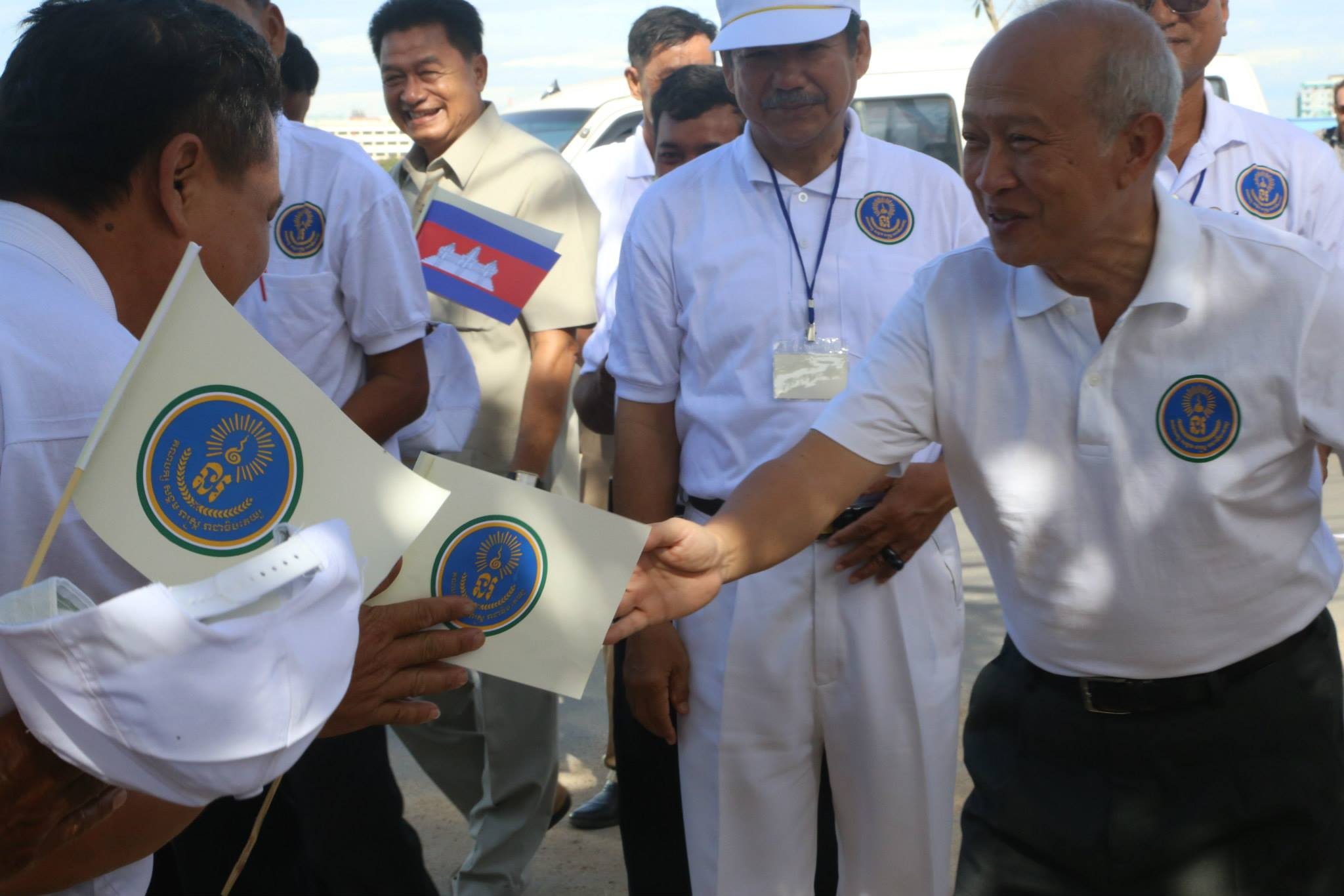 Norodom Ranariddh and supporters of Community of Royalist People's Party.